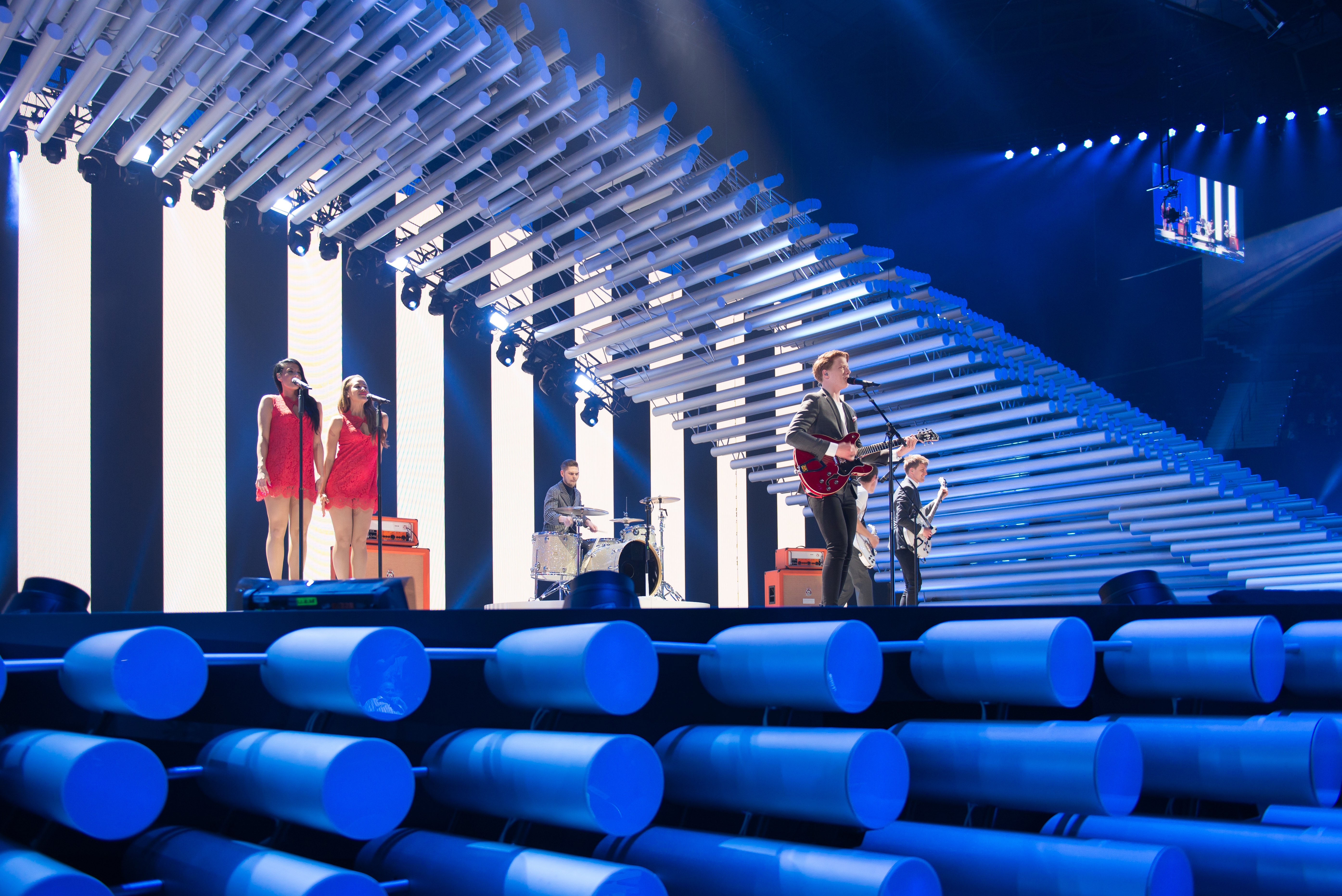 Eurovision Song Contest Vienna 2015: Anti Social Media, Denmark